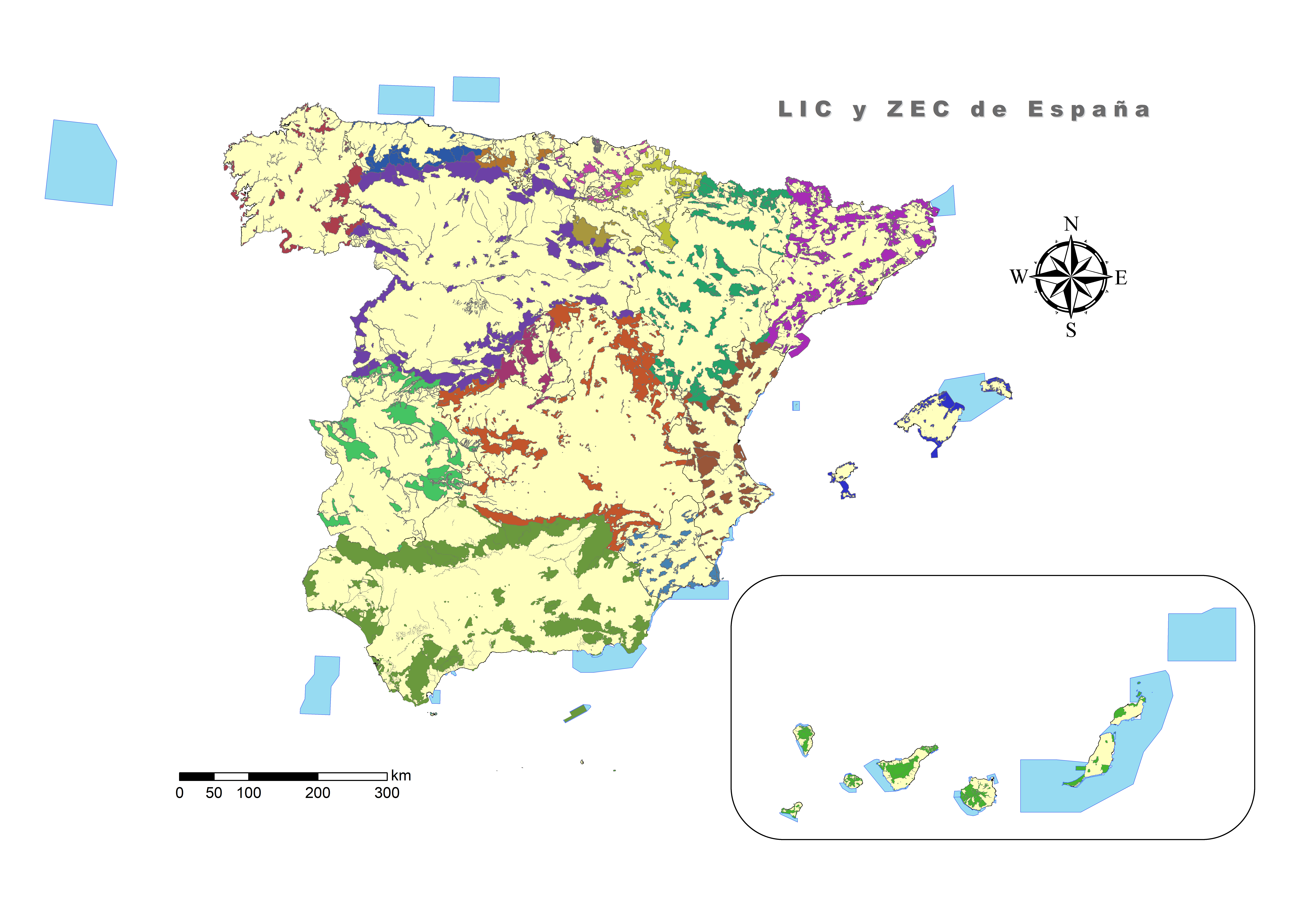 Sites of Community Importance (SCI) and Special Areas of Conservation (SAC) in Spain.